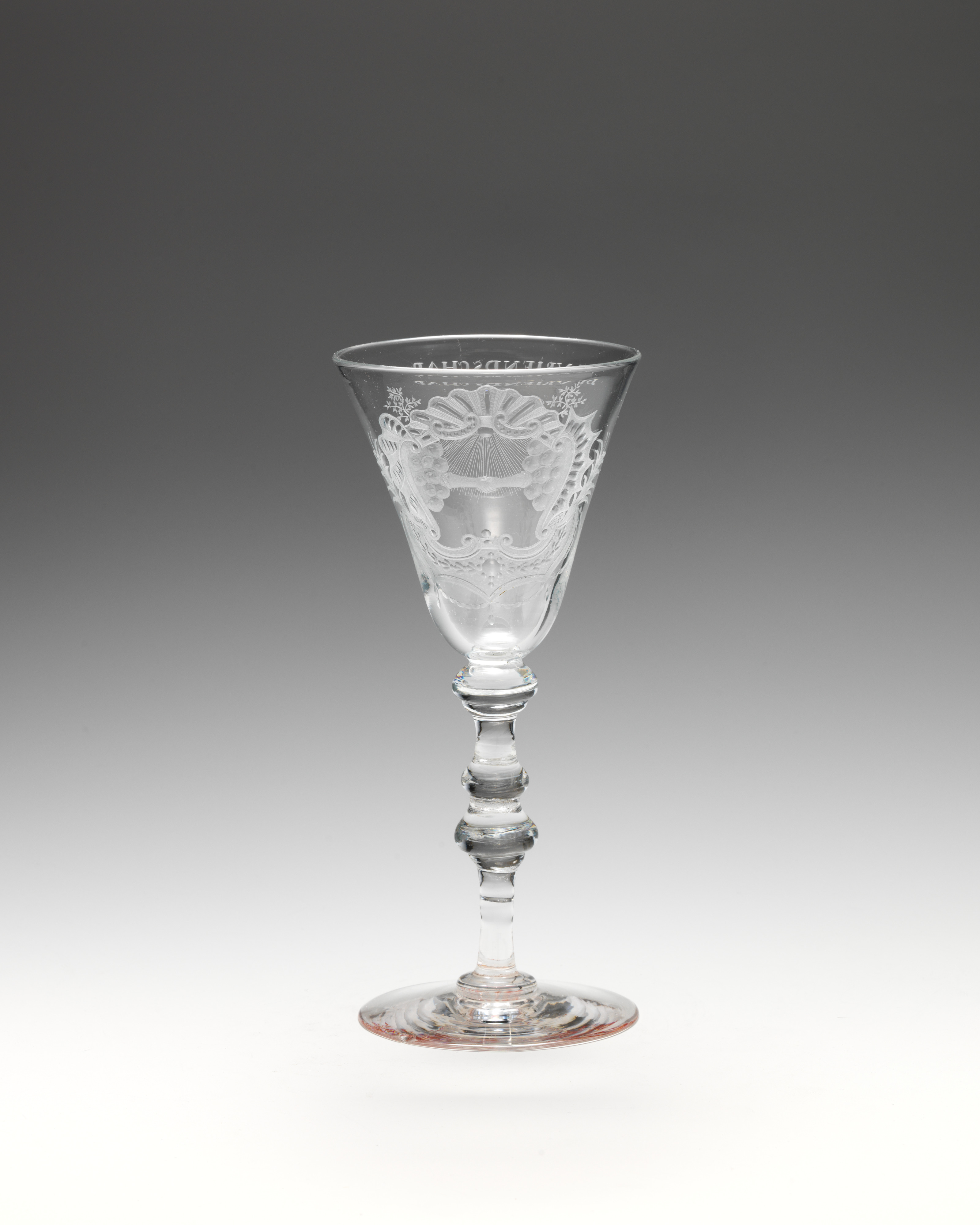 British, Newcastle and Dutch, Amsterdam; Wineglass; Glass